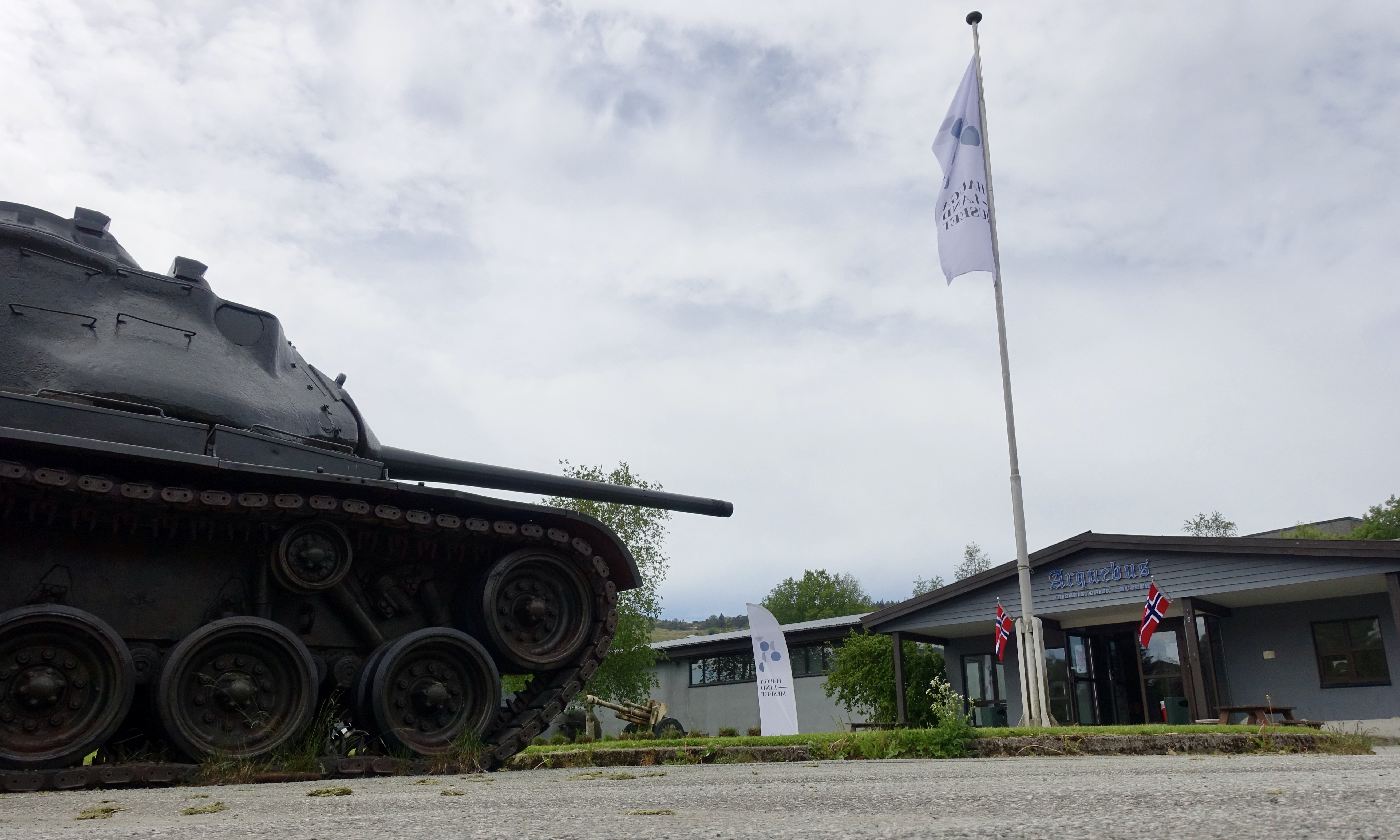 A M47 Patton| outside Arquebus War History Museum (Norwegian: Arquebus krigshistorisk museum) in Tysvær, a regional museum focusing on the German occupation of Norway during the Second World War. Photo taken on June 2nd, 2020.